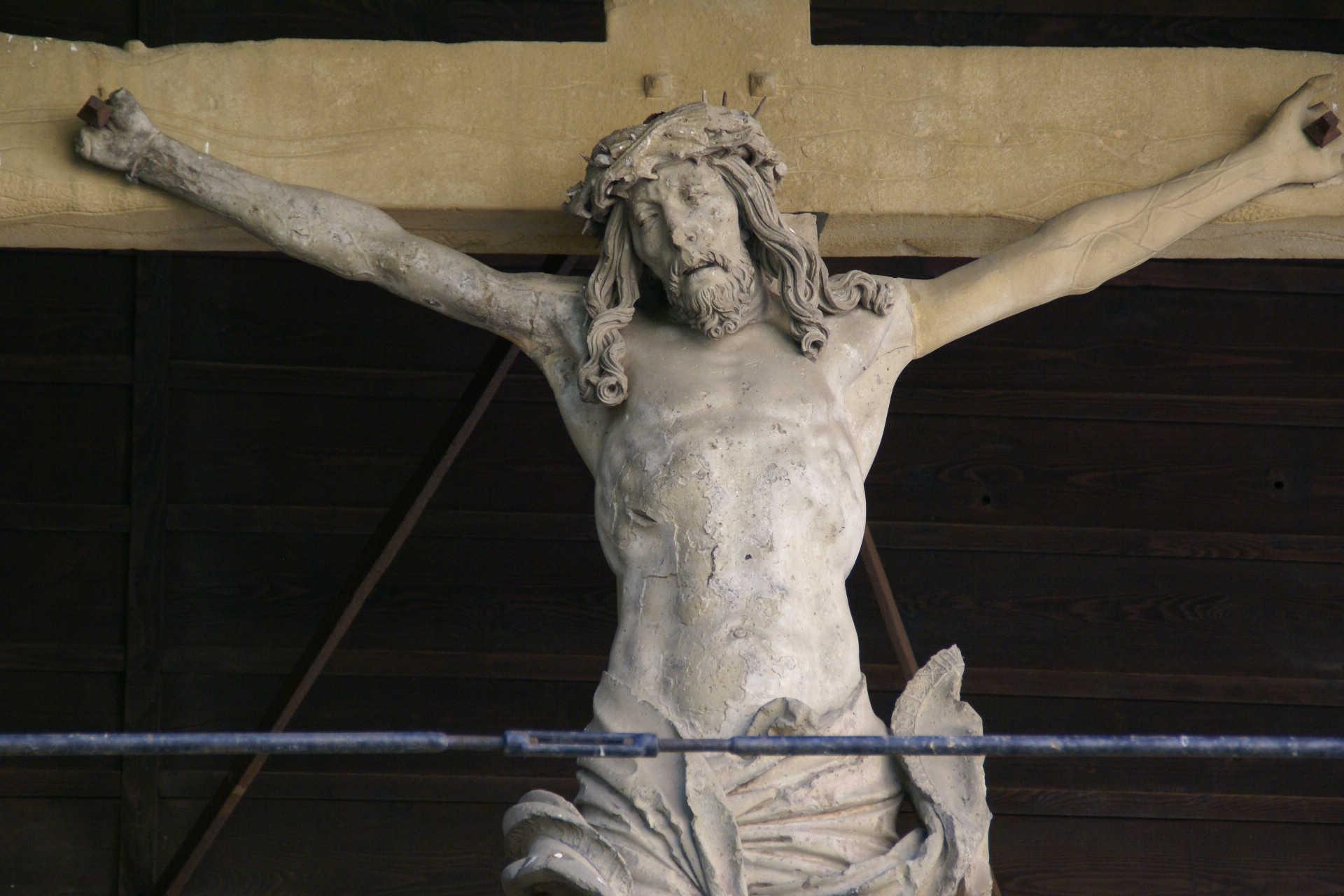 Crucifixion group by Hans Backoffen at the Evangelical Church in Bad Wimpfen, Germany